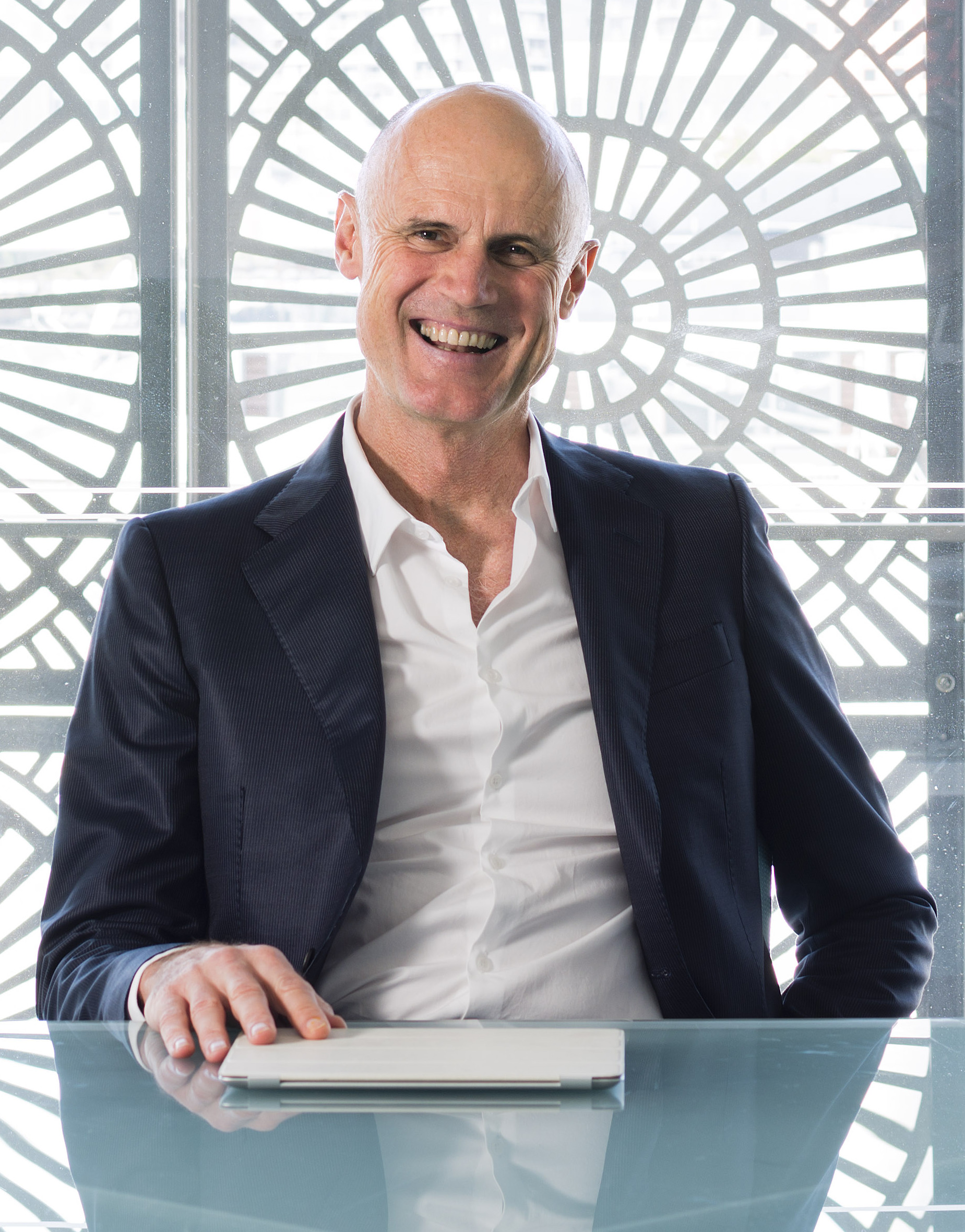 Phillip Mills CEO of Les Mills International in 2012